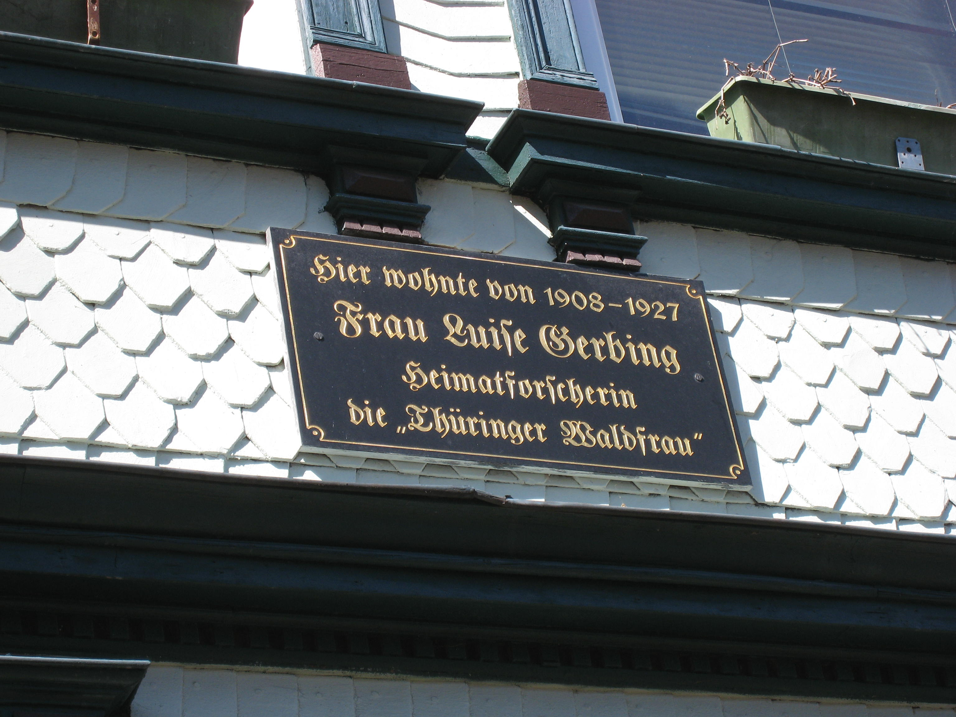 Villa Sonnenschein Reinhardsbrunner Strasse 12 Schnepfenthal